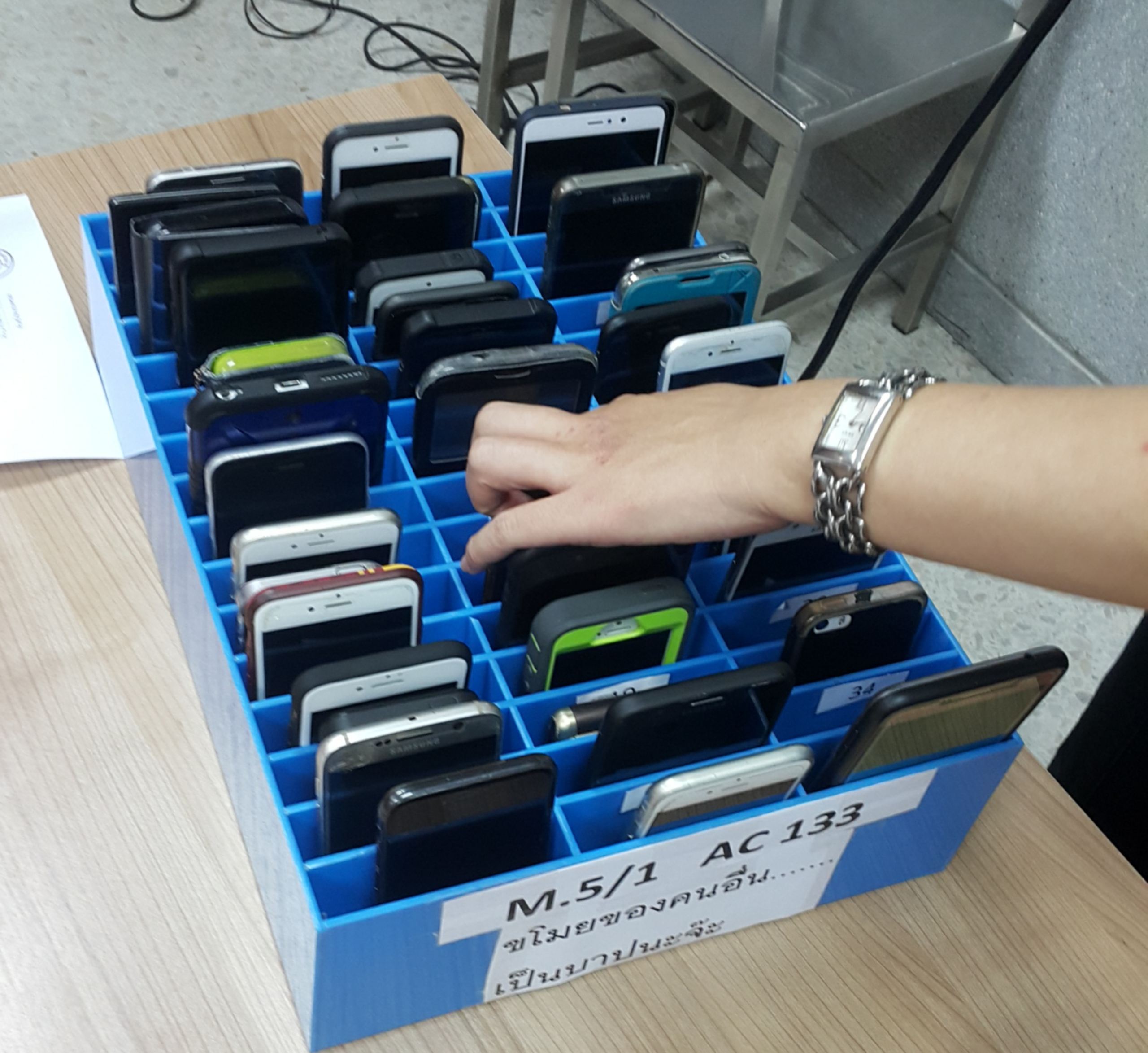 A mobile phone cage used for keeping the students' phones away from them to stop their uses of mobile phones in the high school